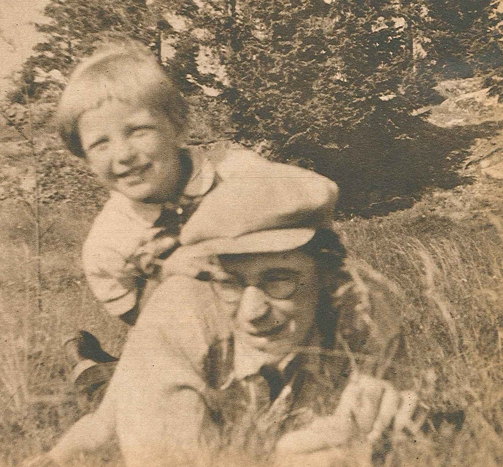 Gustav Sandgren (1904-1983), Swedish author and translator, with his son.